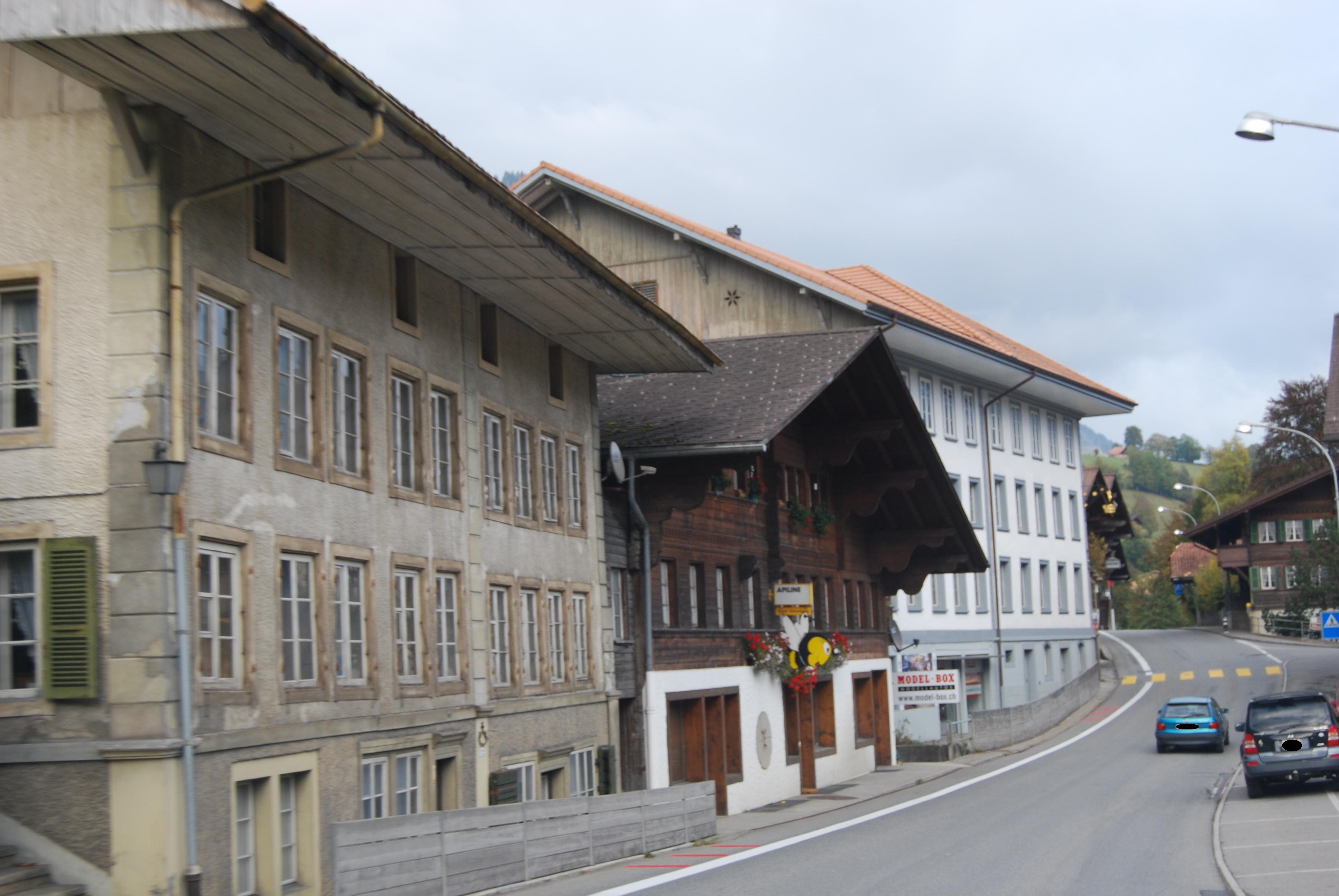 Erlenbach im Simmental, canton of Bern, SwitzerlandEsperanto: Erlenbach en Simme-Valo, Kantono Berno, Svislando